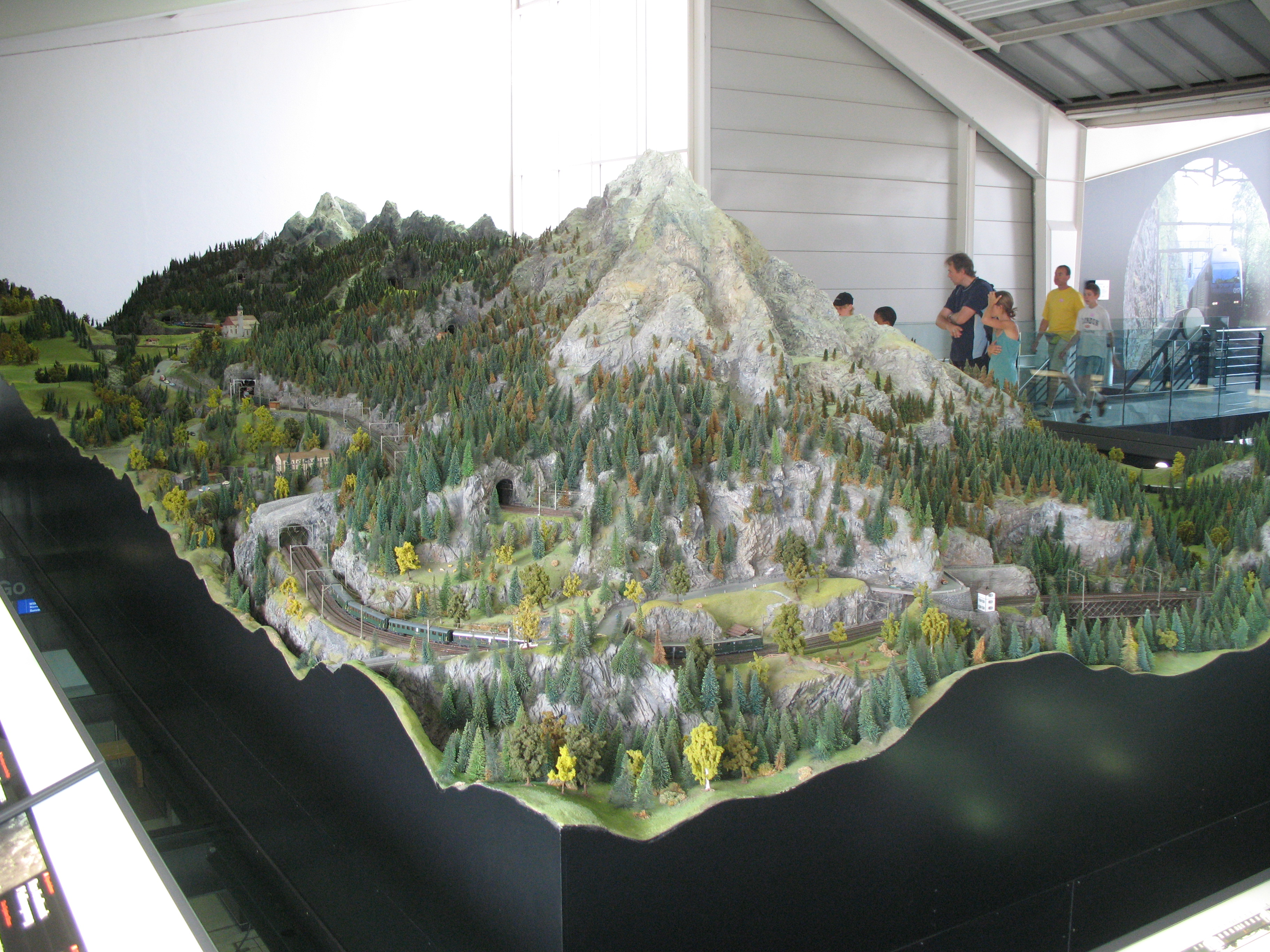 Model railroad in the Swiss Transport Museum, Luzern, Switzerland